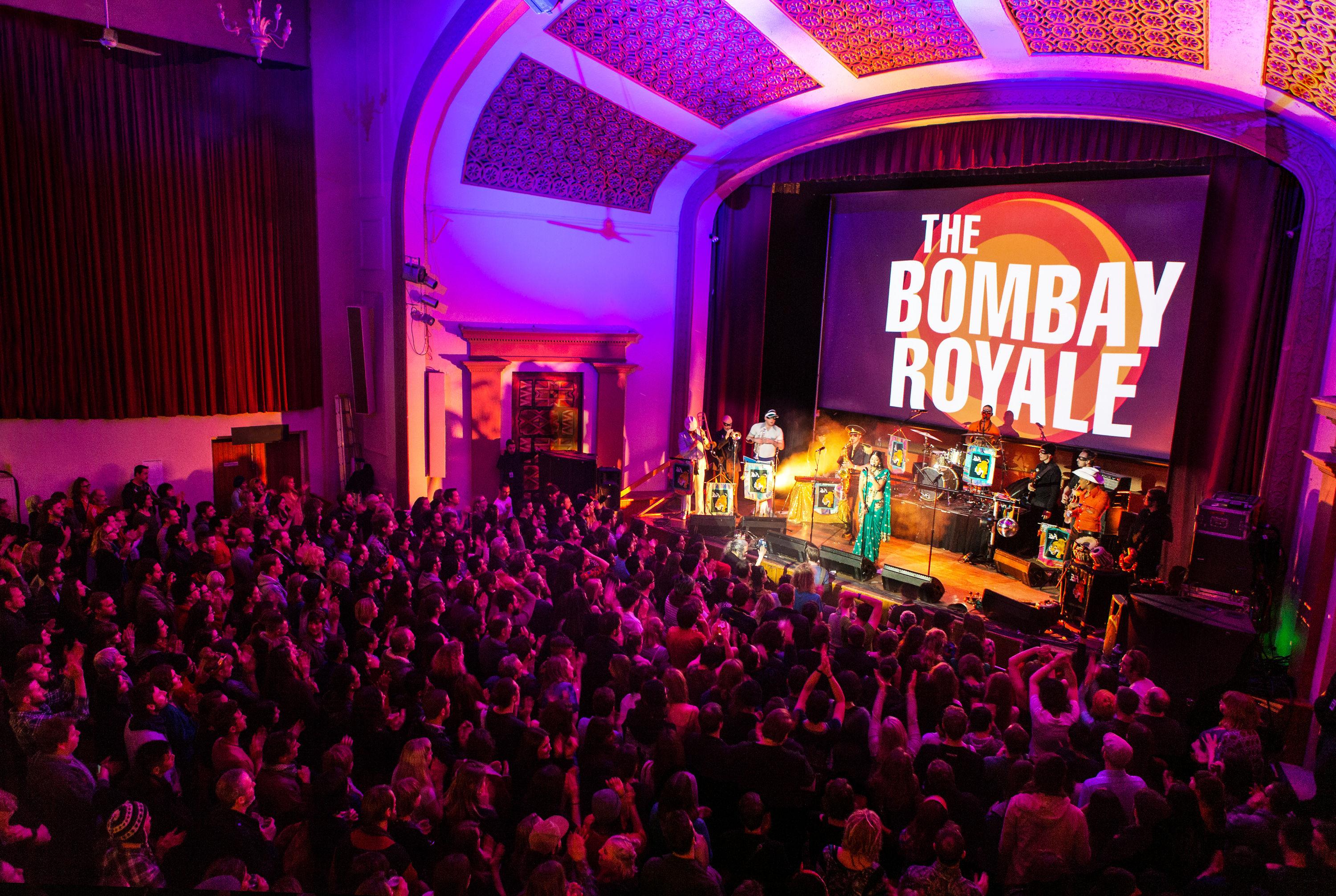 The Bombay Royale performed at Estonian House on August 30th, 2015 for VISIONS – a musical and video collaboration series produced by Shadow Electric